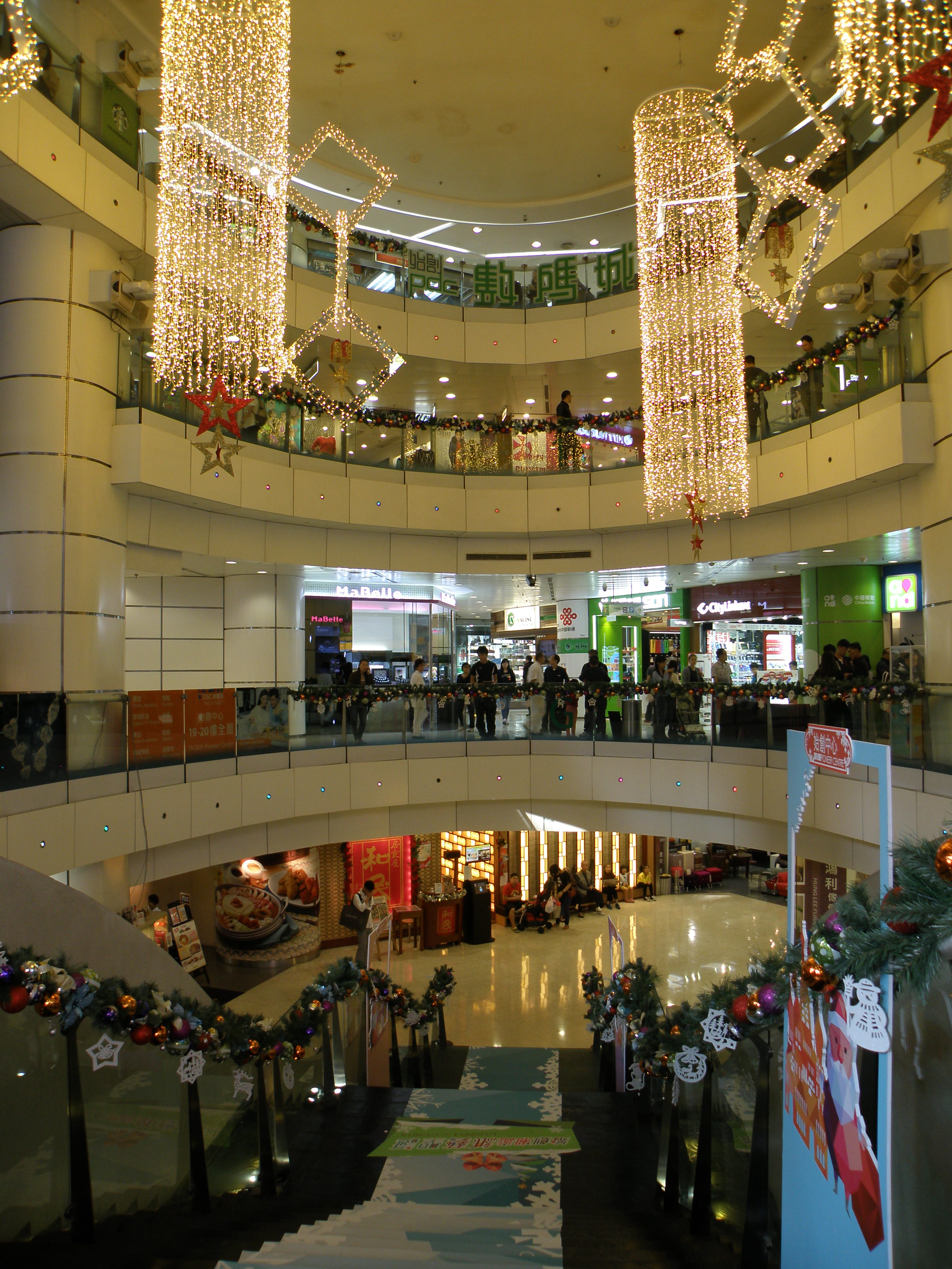 Pioneer Centre in Prince Edward, Hong Kong.